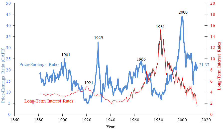 A plot of the S&P 500 composite index price to earnings (P/E) ratio, and long-term interest rates in the US, from 1881 to 2008. Modeled on a plot from the book Irrational Exuberance by Robert Schiller, with data taken from